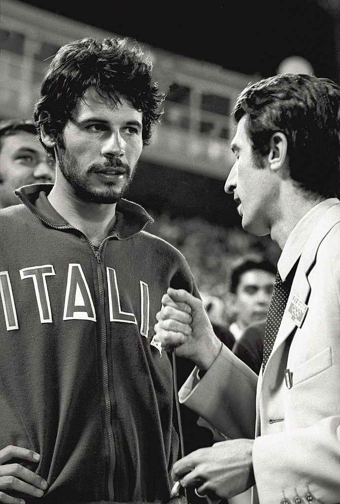 The Italian triple jumper Giuseppe Gentile is interviewed by a journalist in the Olympic Stadium of Mexico City, in the audience watching the Olympic competitions. The athlete set a new world record in triple jump; on the following day the record was battered by two athletes. Gentile won the bronze medal. Mexico City (Mexico), October 1968